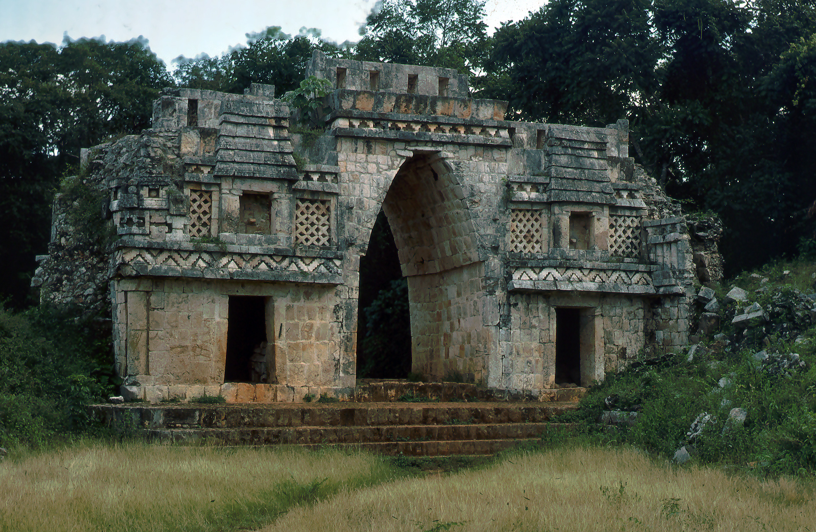 Labná, Yucatan, Mexico: archway, west side.